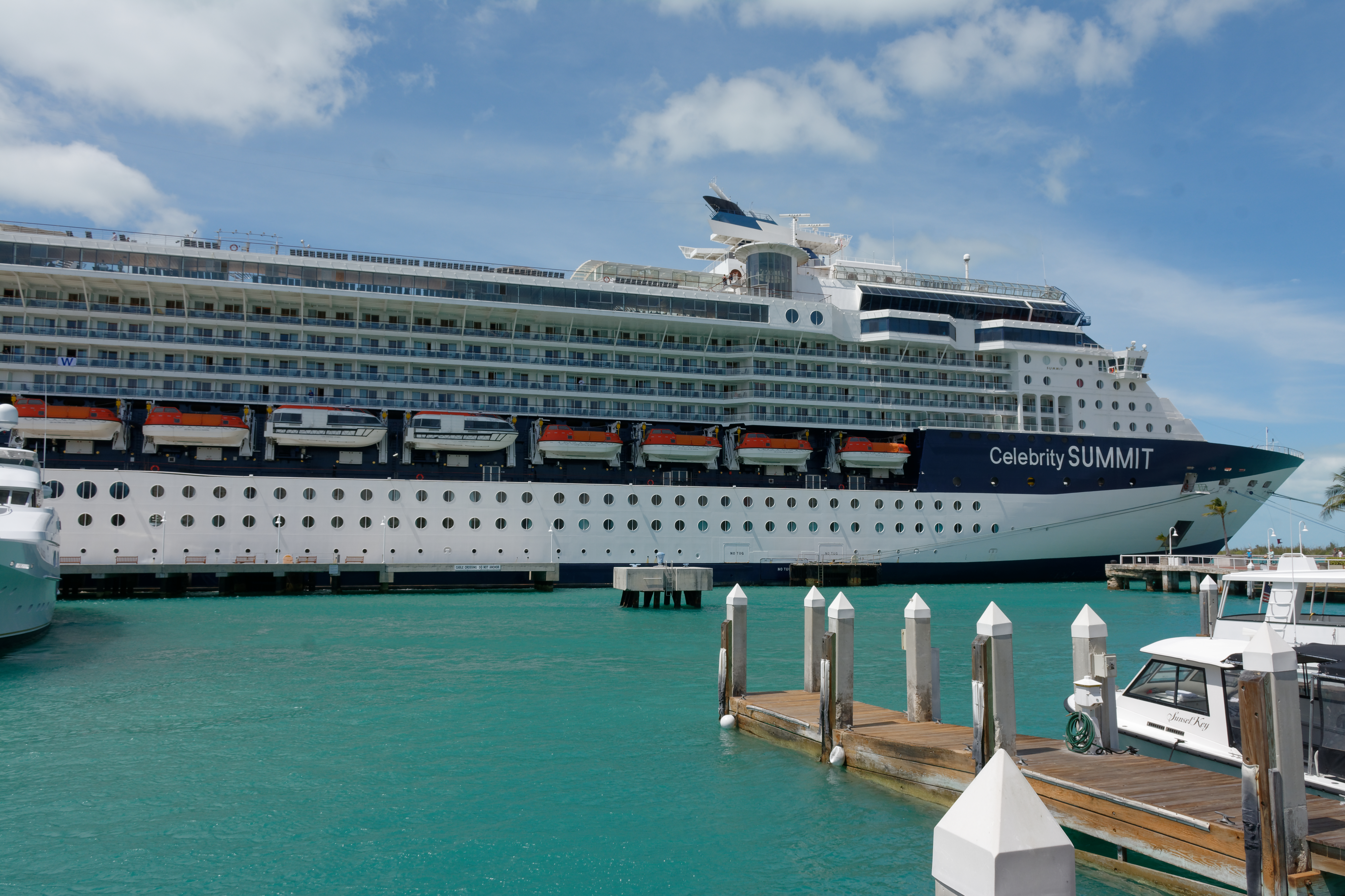 The Celebrity Summit, docked at Key West, March 2017